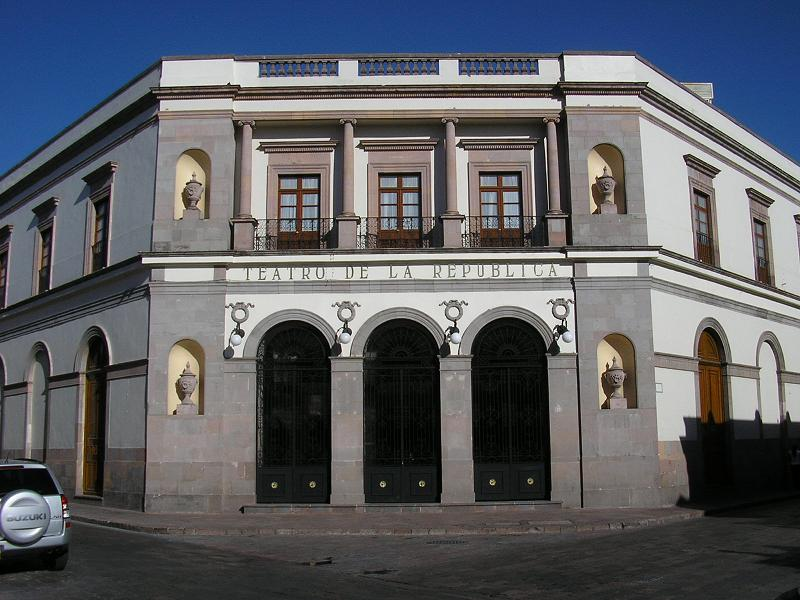 Teatro de la República, Theater of the Republic, Queretaro City, where the current Mexican Constitution was signed in 1917.